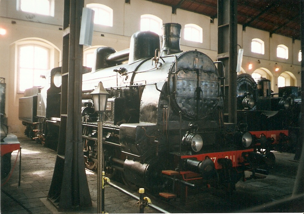 FS 477.011 ex 180.56 kkStB built in První Českomoravská, Prague 1904